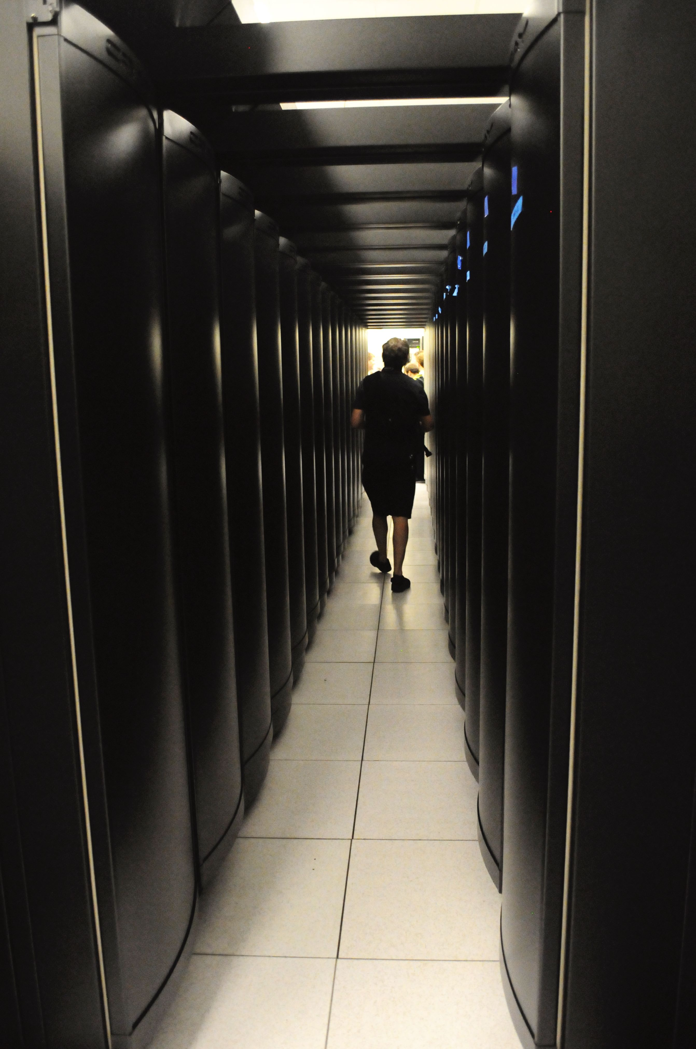 The service area behind Hopper, a supercomputer housed at NERSC, forms a narrow tunnel. Here one of the attendees in my group is walking through it. The painted racks are on the right - I think the racks on the left also belong to Hopper. CC0 waiver: To the extent possible under law, I waive all copyright and related or neighboring rights to this work.